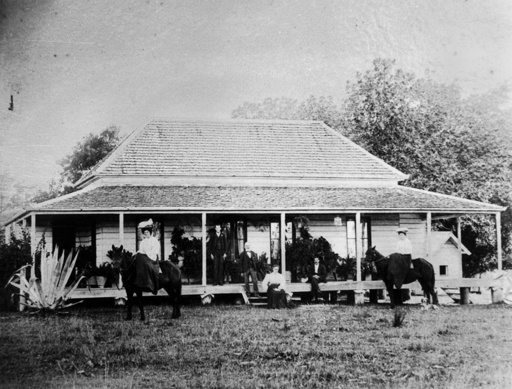 Mallet family pictured outside their home at Upper Caboolture, ca. 1910 S. W. Mallet family members include Ruby Goodwin, George Woodhouse, Elizabeth, Henry and Elsie. Lilly is missing from the photograph. (Description supplied with photograph).